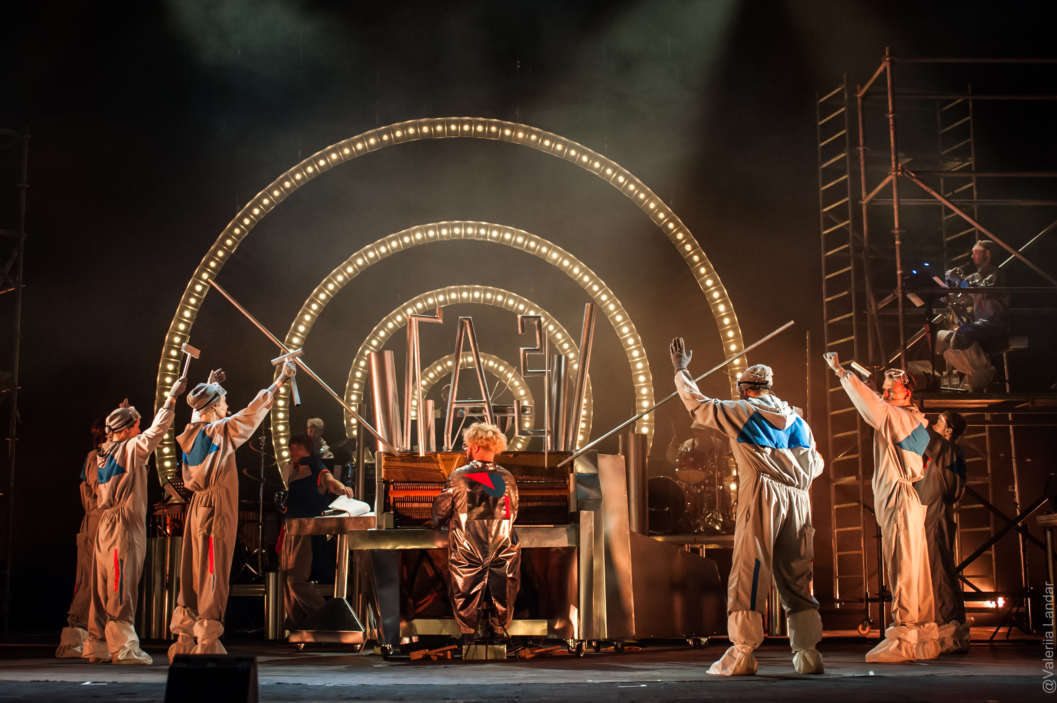 Opera-dystopia GAZ, I ACT.Intermedia-machina, Photo Valeriia Landar